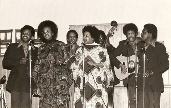 The Singing Stewarts 1978 - 1979 at Bewbold College